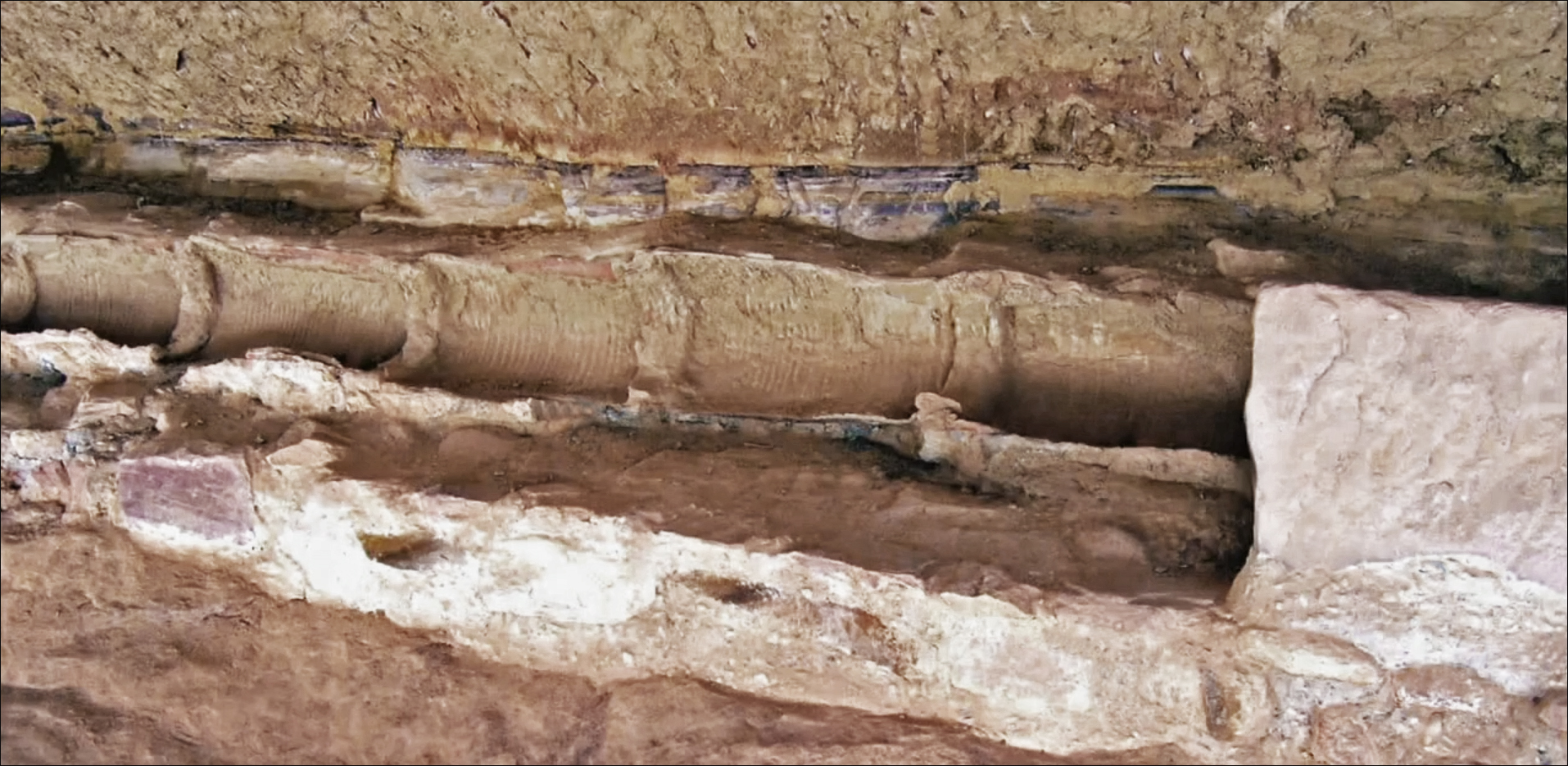 Petra. Terracotta pipes.